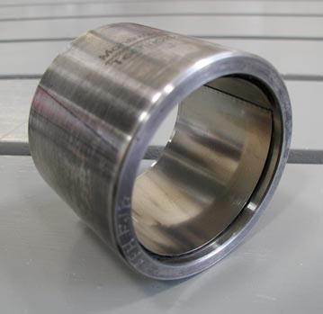 Foil-air bearing for the core rotor shaft of an aircraft turbine engine. Note the logo of Mohawk Innovative Technology, Inc. on the bearing.